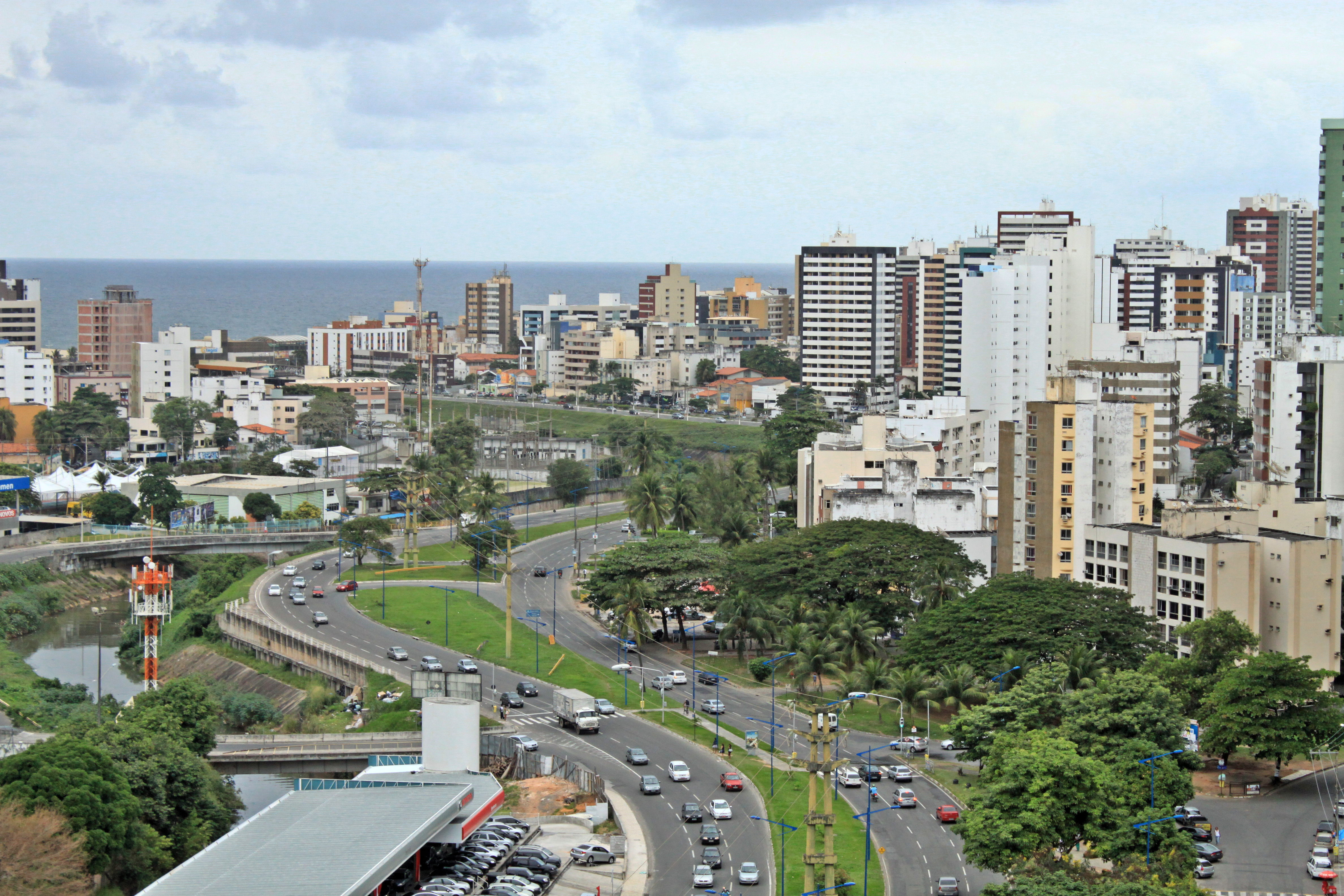 Pituba, Salvador, Bahia, Brazil.